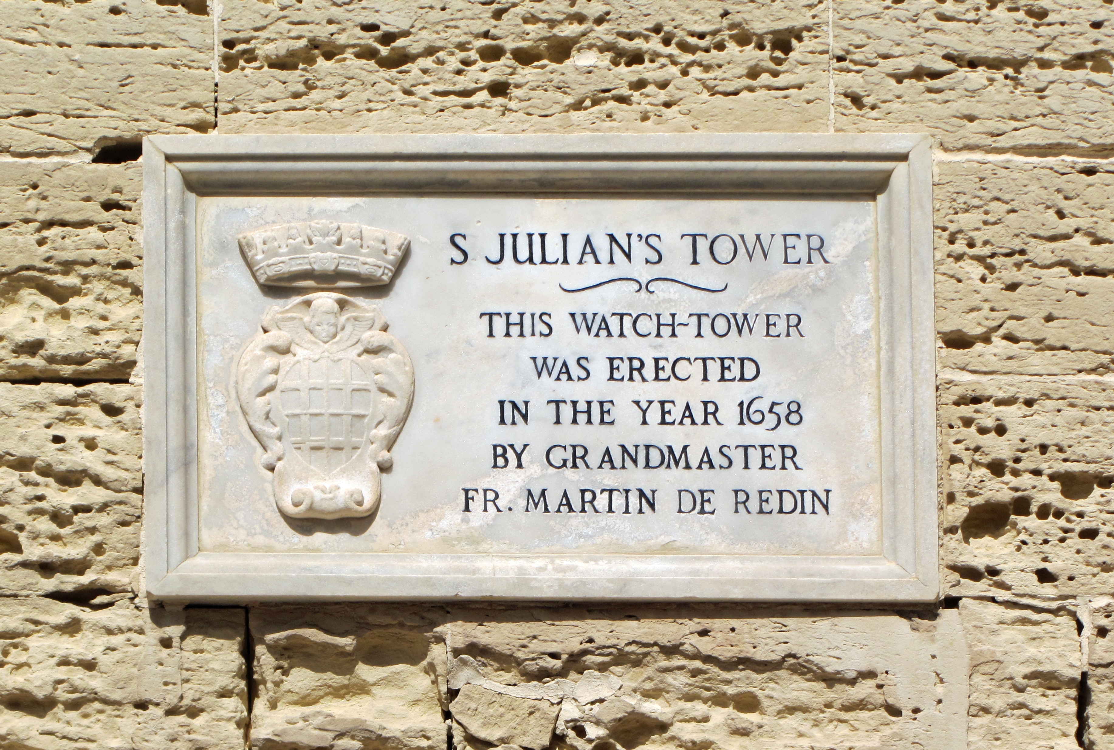 St. Julian's Tower at Triq it-Torri in Sliema, Malta